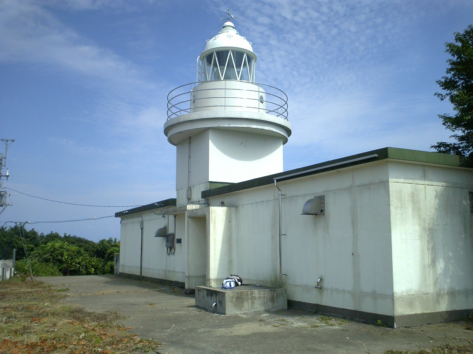 Awashima Lighthouse - 粟島灯台